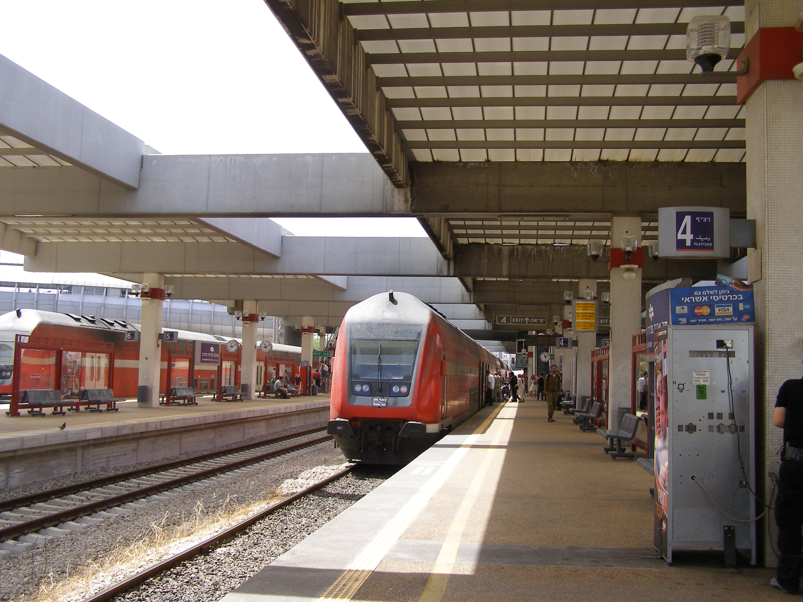 Tel-Aviv Center Station